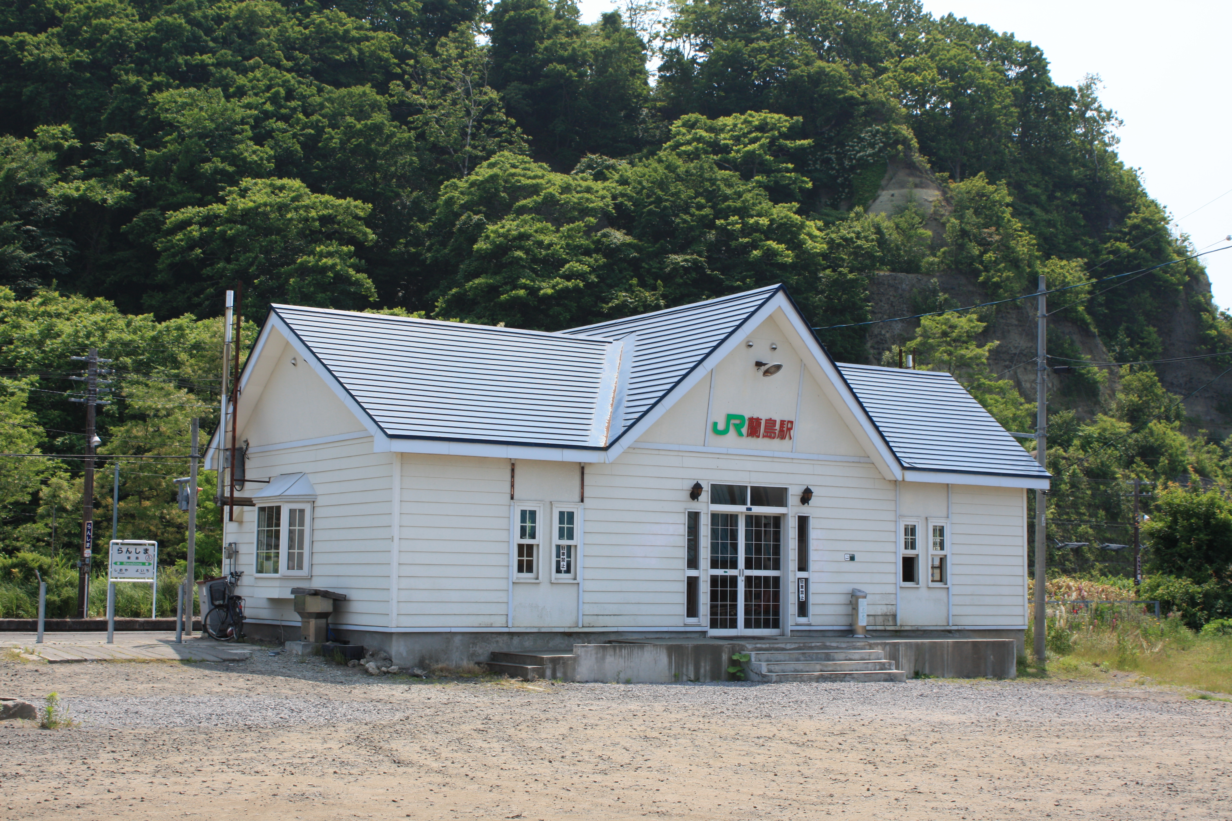 Ranshima Station in Otaru, Hokkaido, Japan. It is the station on the Hakodate Main Line operated by JR Hokkaido.